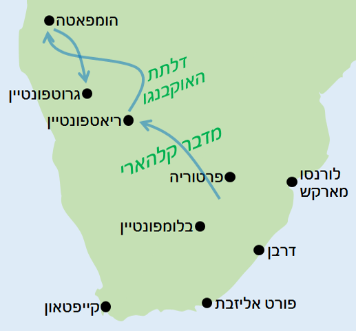 Map of the main route of the Dorslandtrek.